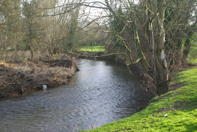 River Arrow, Alcester The River Arrow meets the River Alne just below this point, it then continues a few miles before flowing into the Warwickshire Avon. The river has flooded the town on many occasions over the years.